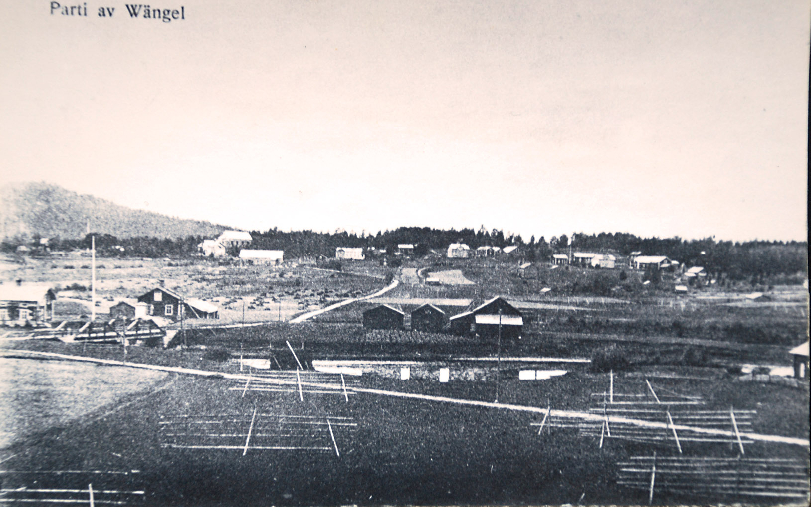 Vängel